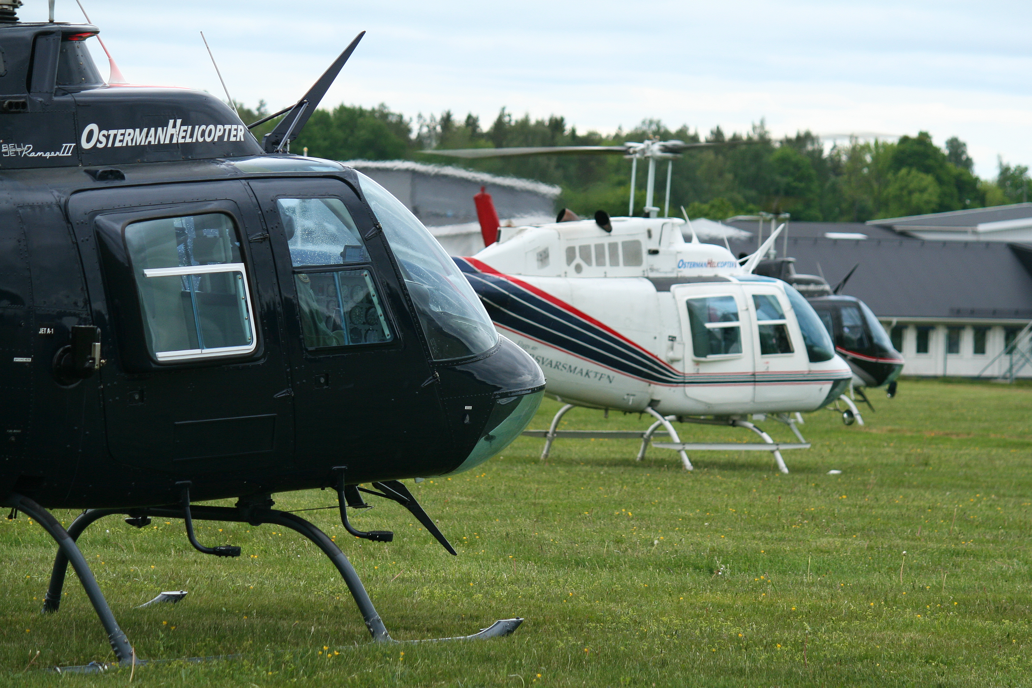 These three Bell 206B Jet Rangers are waiting to lift for a formation flyby. From left to right:- SE-JKD msn3555, SE-JIP msn 2545, SE-JKP msn 3797. 2012 Malmen Airshow, Sweden. 03-06-2012